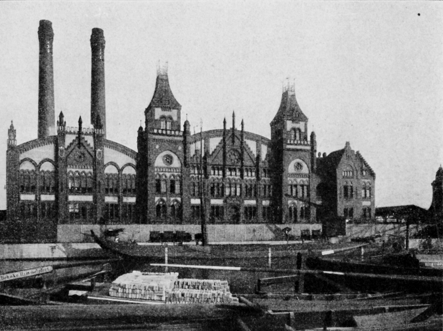 Berlin-Charlottenburg Powerplant (1902)